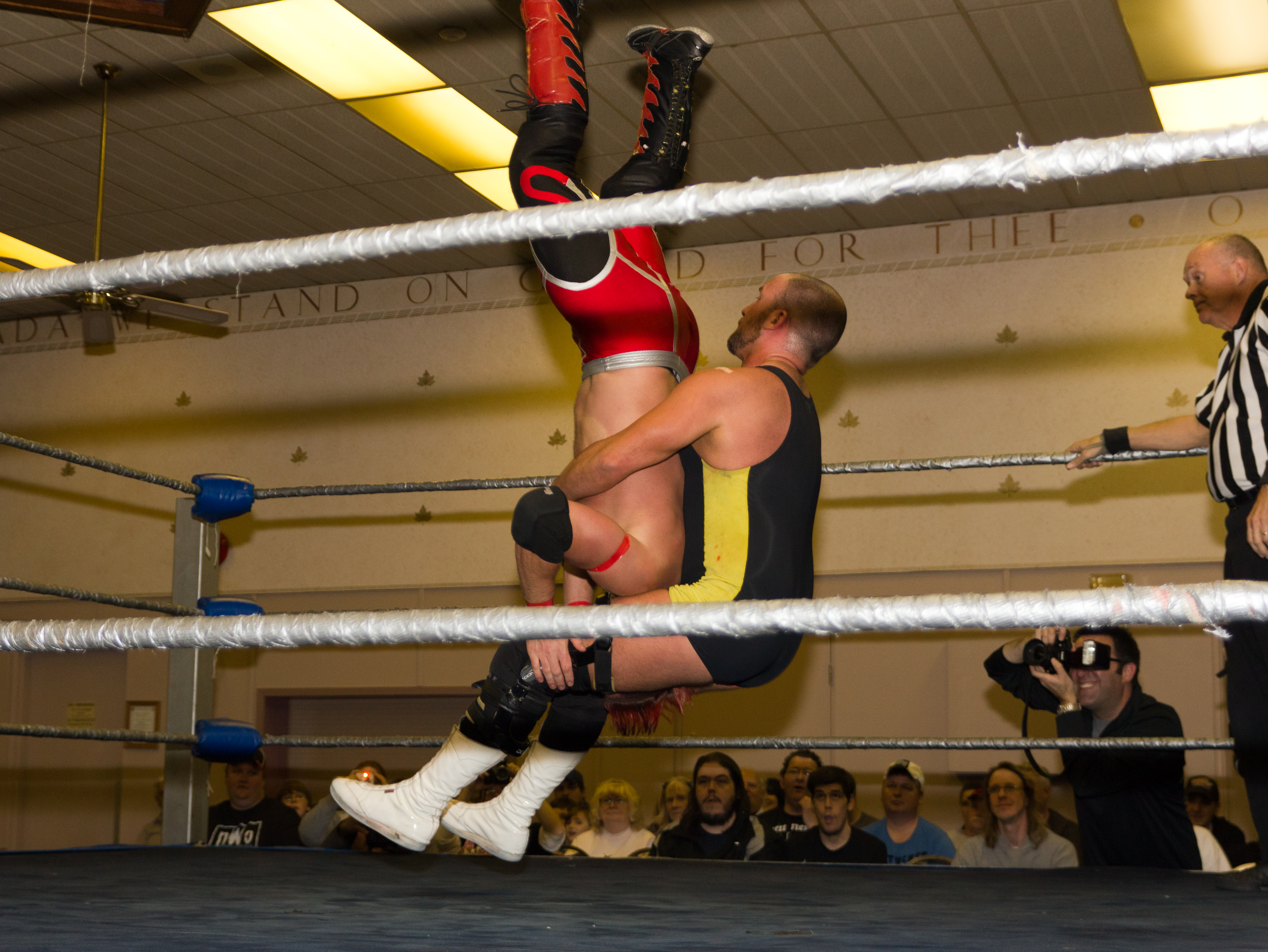 Jake O'Reilly executes a jumping piledriver on Scotty the Body (not to be confused with Scott Levy) at a Stampede Wrestling event on November 6 2011.